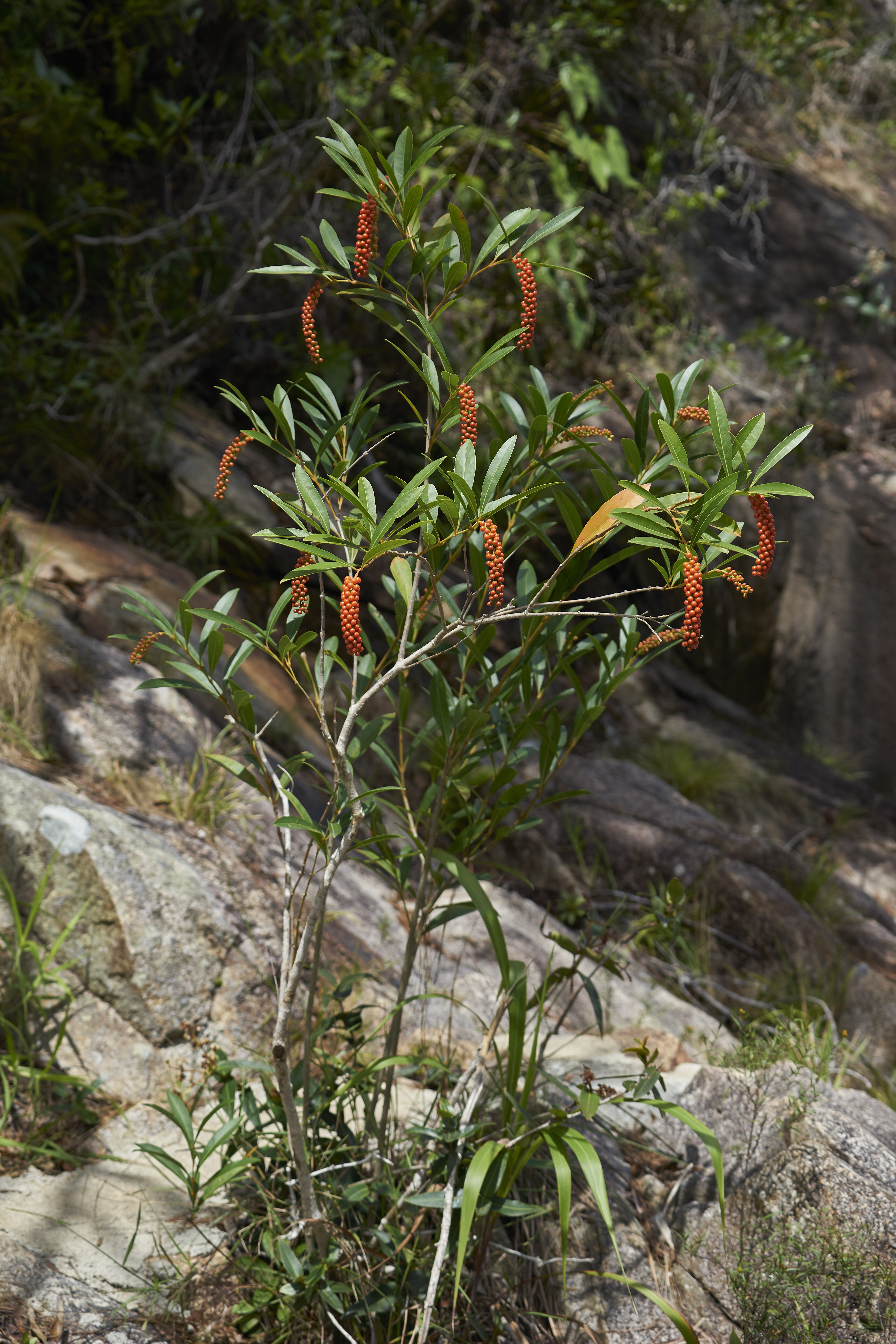 Citharexylum caudatum at Big Rock Falls, Mountain Pine Ridge Reserve, Belize The making of this document was supported by the Community-Budget of Wikimedia Germany.